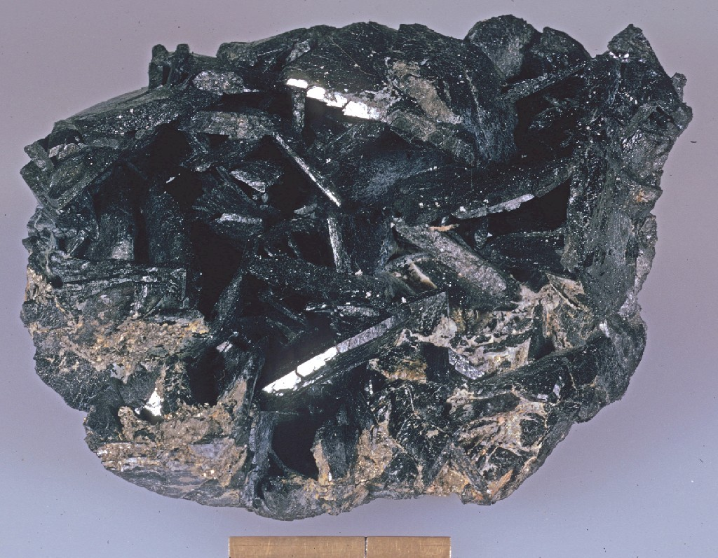 Allanite-(Ce) Locality: Mary Kathleen Mine, Mary Kathleen district, Mount Isa - Cloncurry area, Queensland, Australia Allanite-(Ce). Specimen from the collection of D. Pohl 1973. Scale at bottom of image is an inch with a rule at one cm.